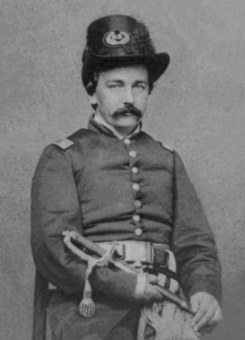 Title: Captain William S. Hillyer Physical description: 1 photographic print. Notes: This record contains unverified, old data from caption card.; Civil War Photograph Collection (Library of Congress).; Photoprint taken at Cairo, Ill.; One of 4 photos on mount with U.S. Grant.